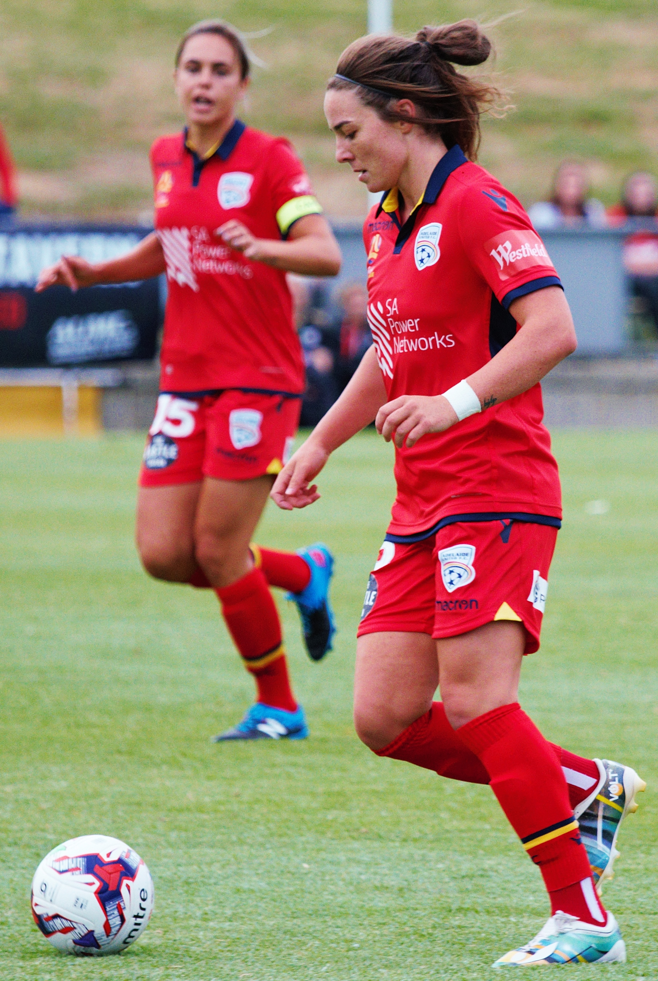 Rnd9AdeSyd - McCormick